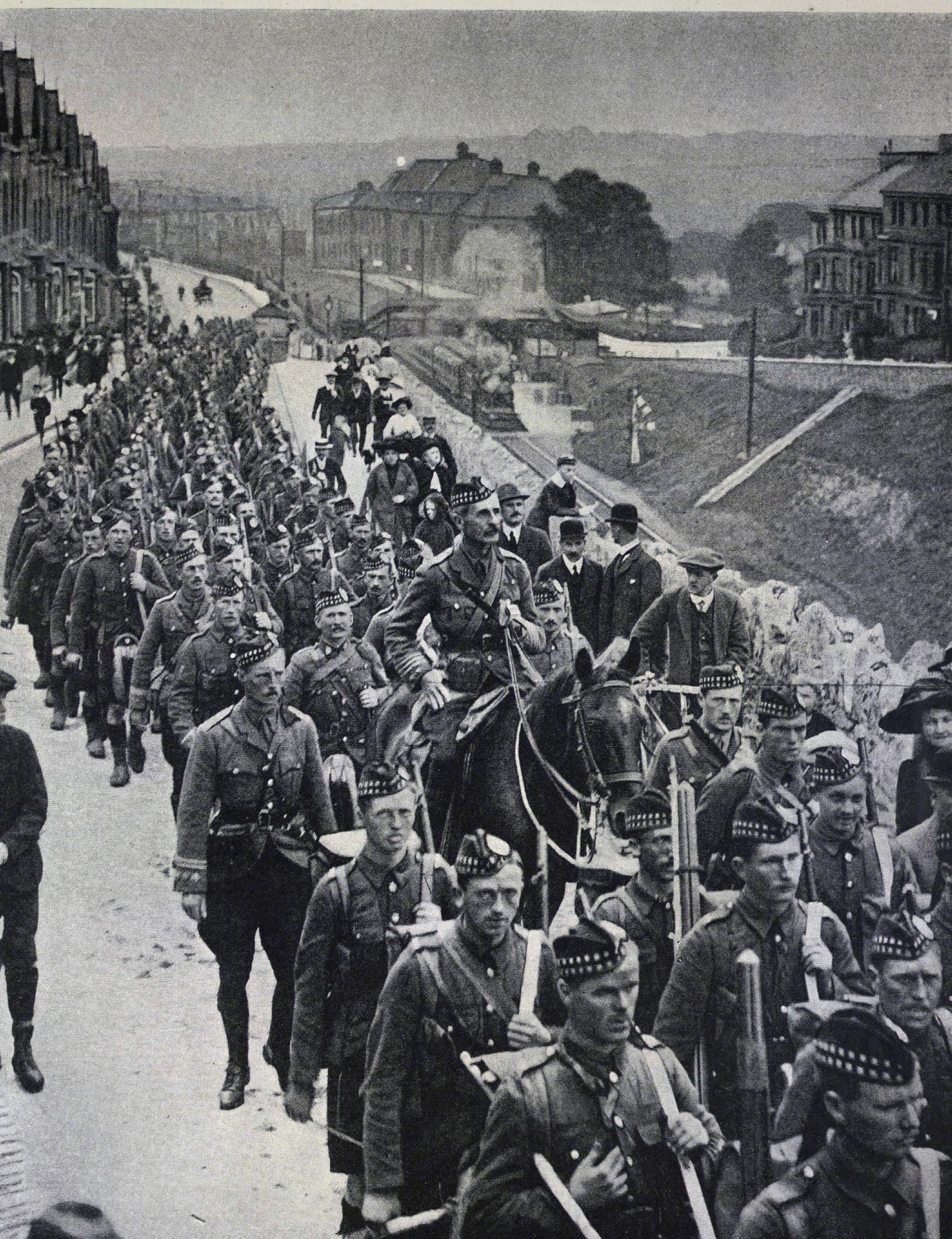 Gordon Highlanders and Colonel William Eagleson Gordon VC CBE (Plymouth, 1914)